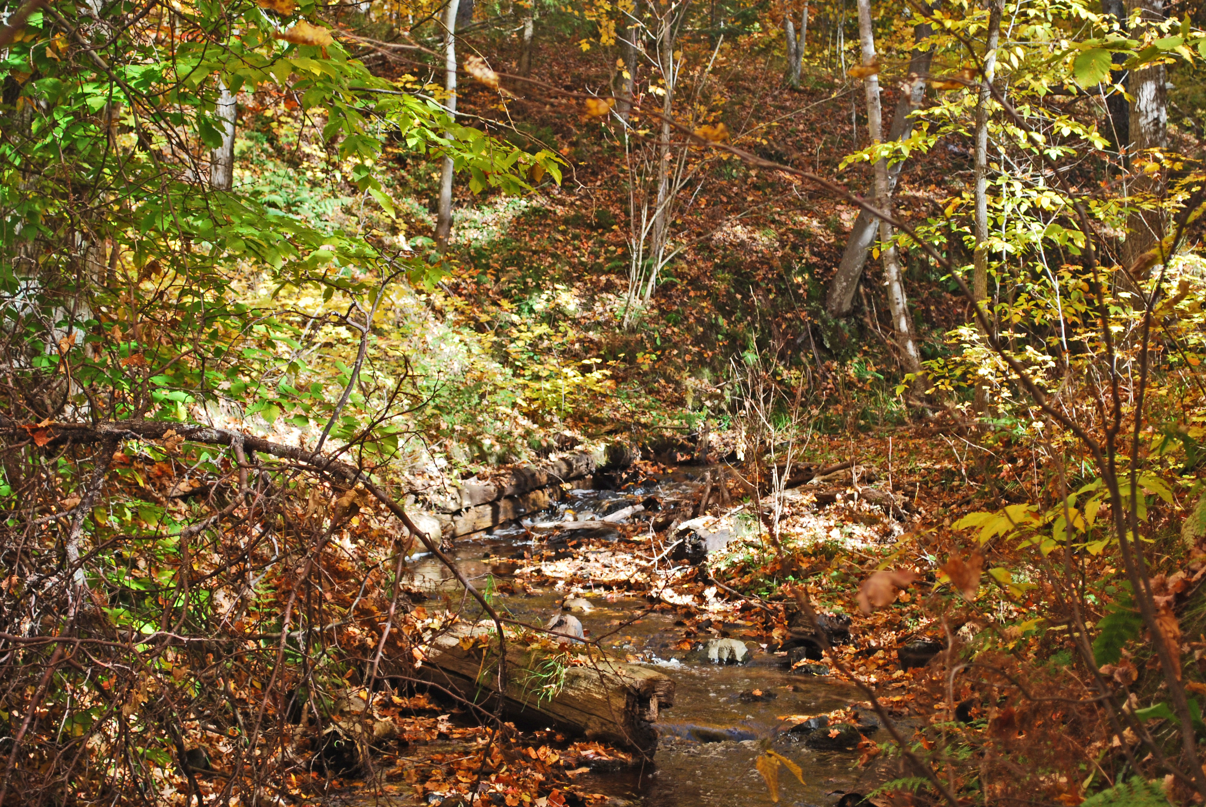 Schoolcraft Furnace site near Munising-Alger County, MI